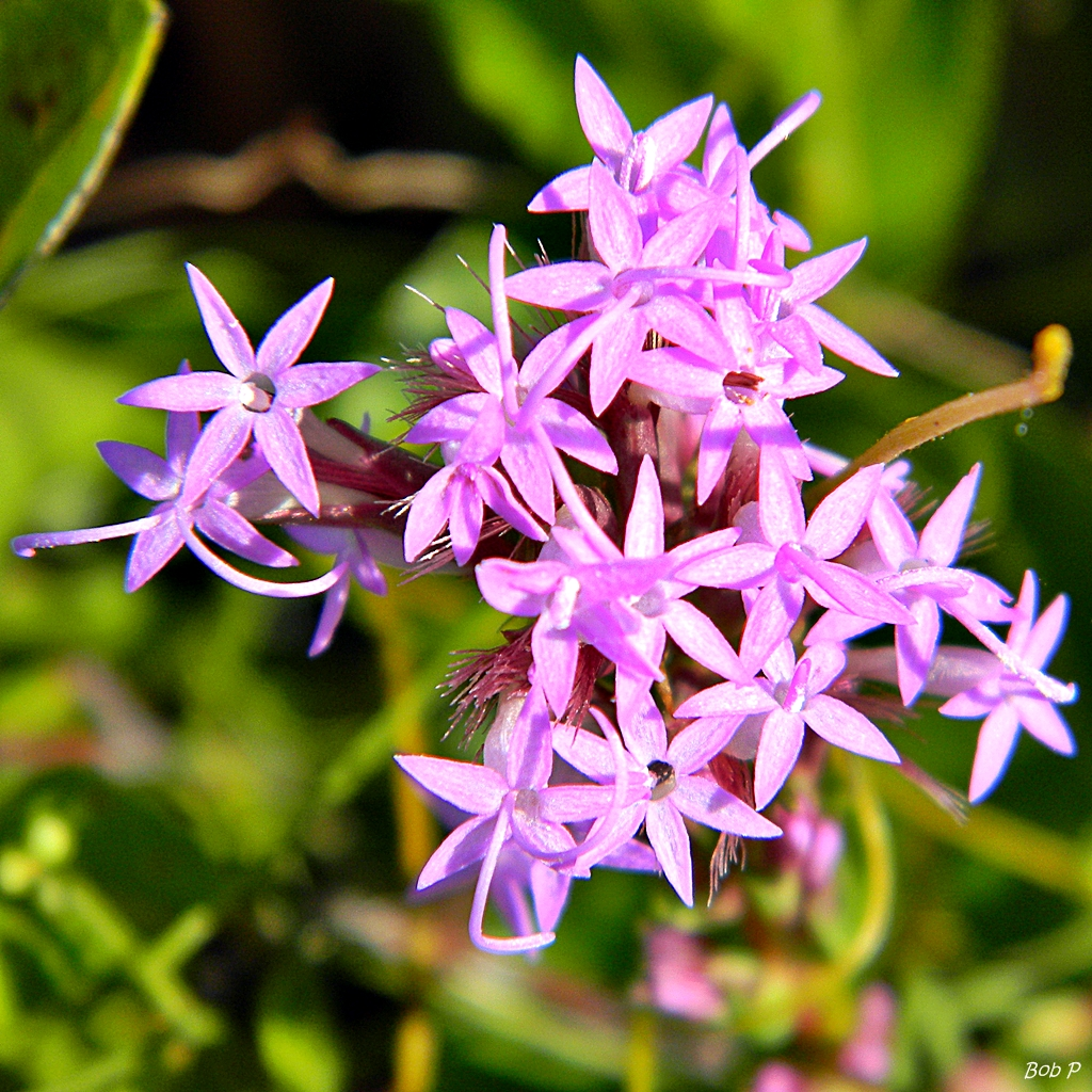 A member of the genus Liatris just starting to bloom in the flatwoods of Jonathan Dickinson State Park. Butterflies ❤ them! I believe this is Liatris chapmanii but there are 5 species of Liatris in the park and I am just a humble treehugger, not a taxonomist.